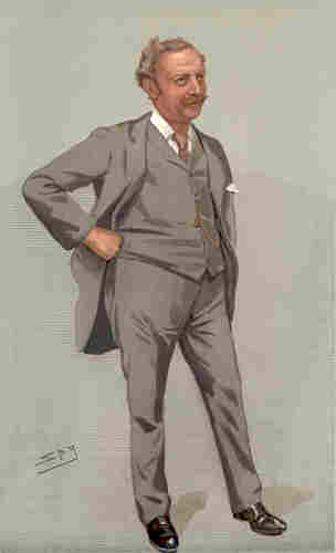 Caricature of Sir Edward Tyas Cook (1857-1919). Caption read "The Daily News".